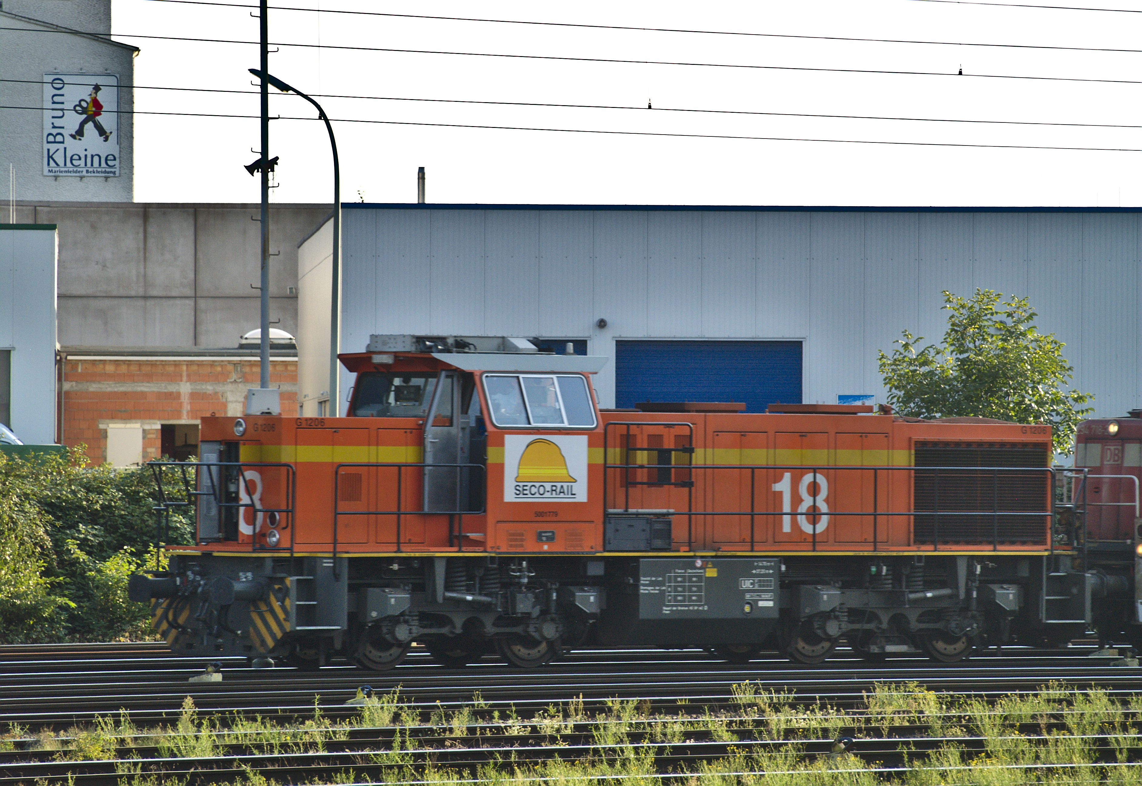 Locomotive #18 of the French operator Seco-Rail, a MaK / Vossloh G 1206, in shunting service in Paderborn Central Station.